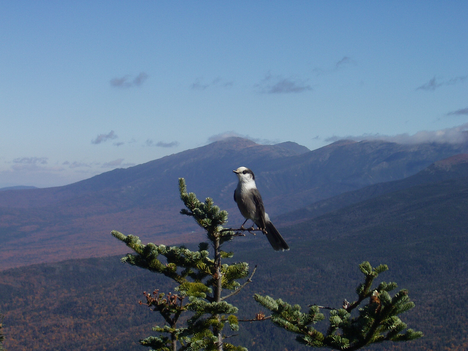 A Gray Jay on Mount Willey, Grafton County, New Hampshire, USA. Shot with Olympus C2Z,D520Z,C220Z @ 12.82 mm 1/800 sec at f/4.8